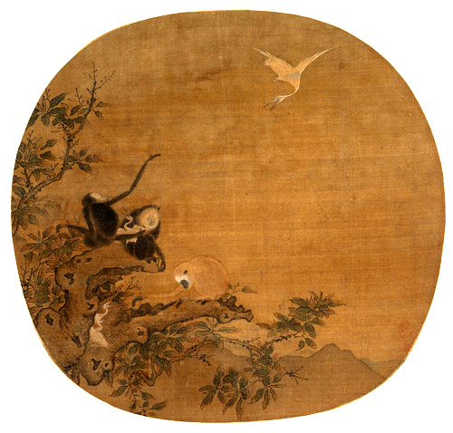 Image of three gibbons catching egrets in Ink and color on silk fan, by Yi Yuanji, Northern Song Dynasty painter